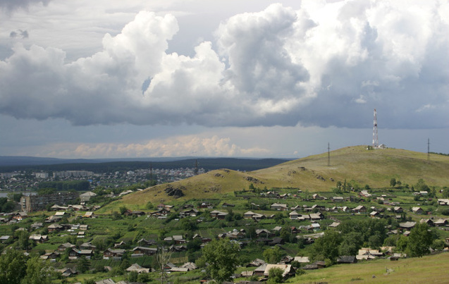 Landscape view of Verkhny Ufaley.